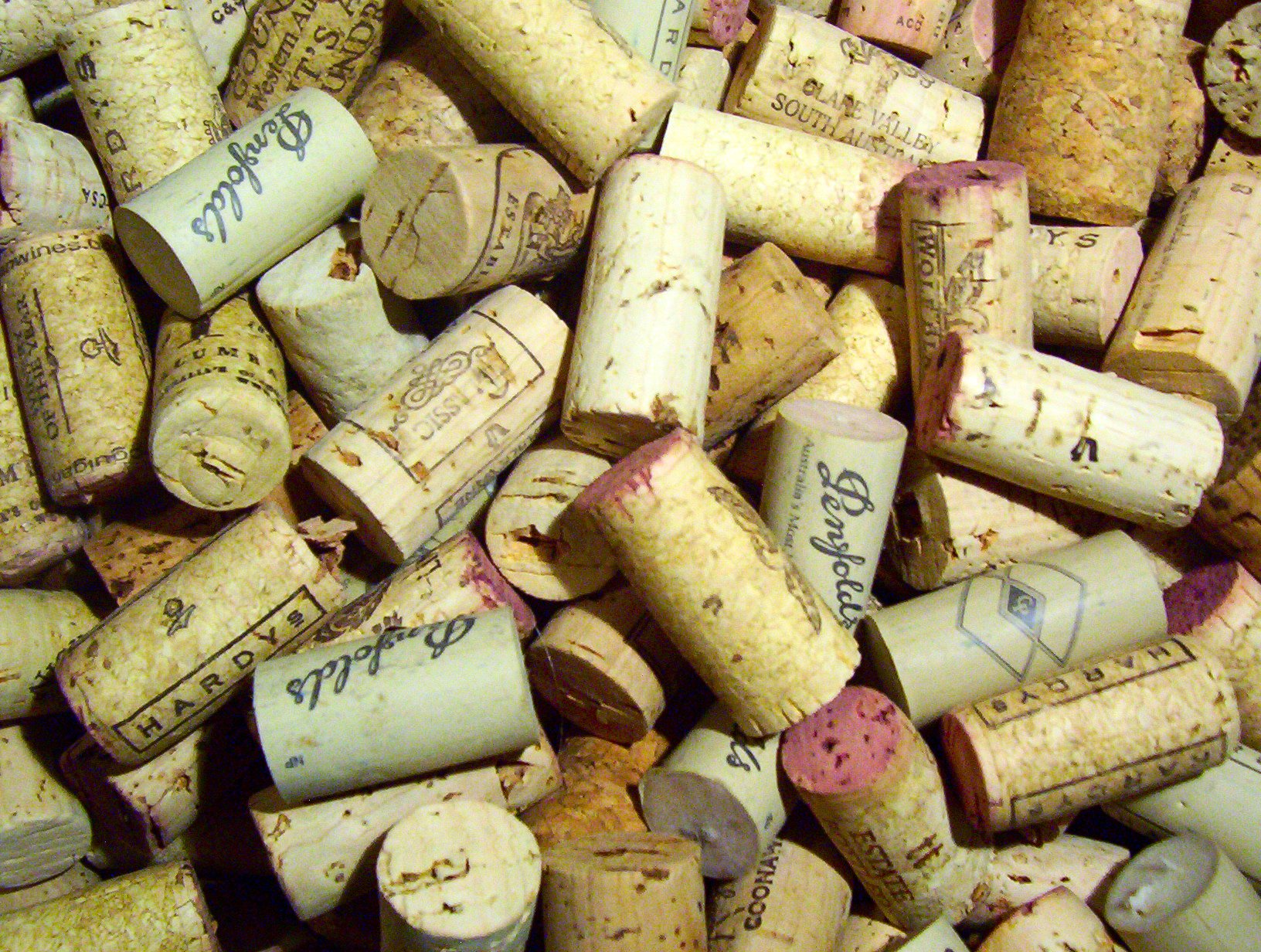 A picture, of corks, both synthetic and natural. Feel free to use this image anywhere and in anyway, but please consult me first.